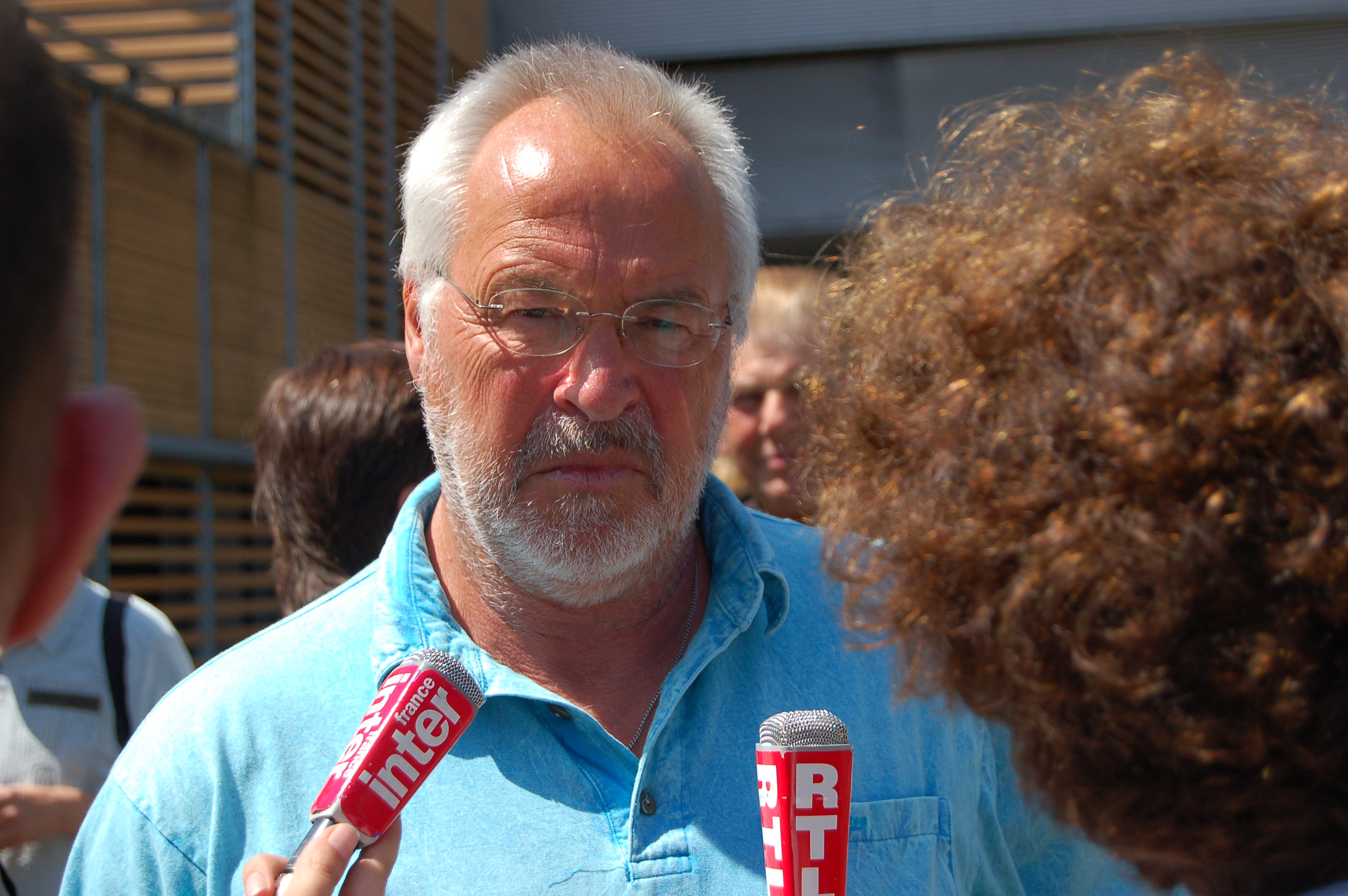 Ronald Sørensen staat Franse journalisten te woord. Sørensen was een tijdlang verbonden aan Leefbaar Rotterdam, maar is tegenwoordig Eerste Kamerlid voor de PVV van Geert Wilders.